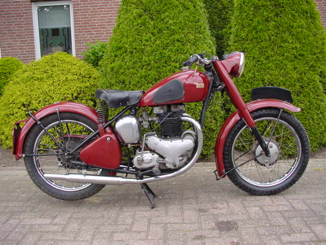 BSA A7 500 cc motorcycle 1948.